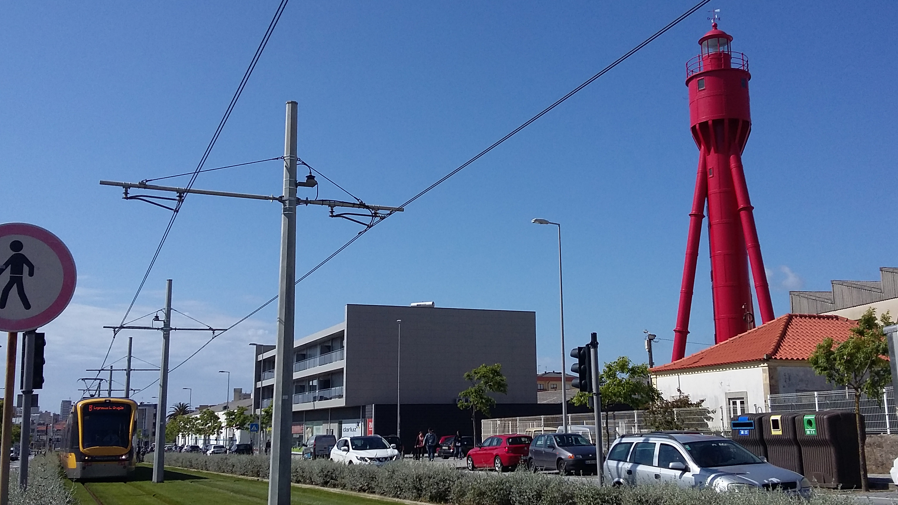 Porto Metro tramtrain and Regufe Lighthouse in Povoa de Varzim, Portugal